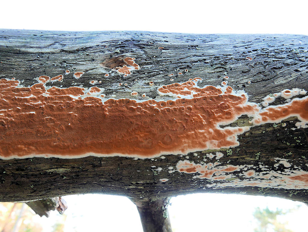 fruiting body in fresh state, on a pine trunk